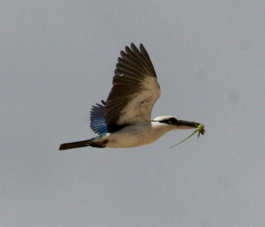 Collared Kingfisher (Todiramphus chloris) also known as the White-collared Kingfisher or Mangrove Kingfisher. It is flying carrying a green lizard in its beak over Saipan of the Mariana Islands in the Pacific Ocean.